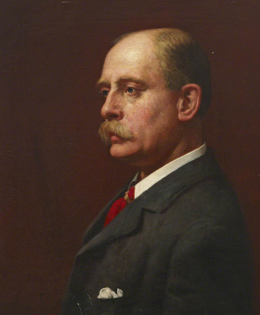 Johnson, Cyrus; Sir Horatio Bryan Donkin (1845-1927); CW+; Sir Horatio Bryan Donkin (1845–1927) Cyrus Johnson (1848–1925) Chelsea and Westminster Hospital Horatio Bryan Donkin was a doctor who started his career in challenging spiritualism which was in vogue at the time. He was physician, psychologist and friend to both Karl Marx and Freidrich Engels. He was appointed Medical Commissioner for Prisons, and took great interest in the psychology of criminals. He successfully opposed Winston Churchill’s proposals to introduce eugenics into Britain. During the First World War he spent time trying to alleviate the problems associated with STDs in soldiers returning from France.Horatio Bryan Donkin was the grandson of Bryan Donkin, a prominent engineer. His father, also Bryan Donkin, worked as an engineer in the family company. He was familiar with some of the people in the Bloomsbury Group. Date 1902 Medium oil on canvas Measurements H 54 x W 45.5 cm Accession number LDCWH: 2010. 90 Acquisition method inherited from Westminster Hospital Work type Painting